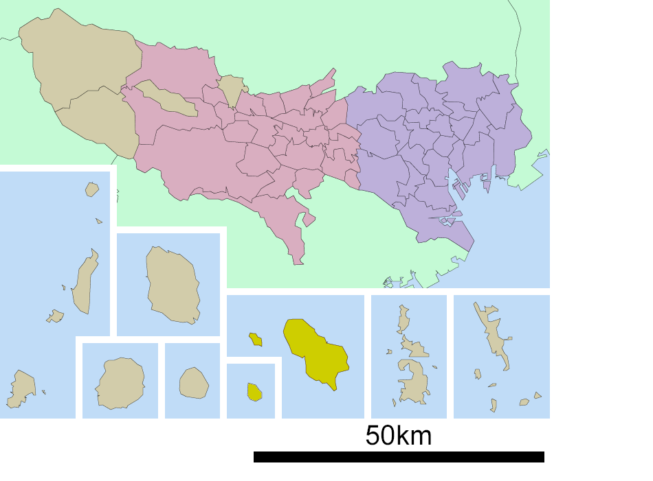 Location map of Hachijo Subprefecture in Tokyo Prefecture.